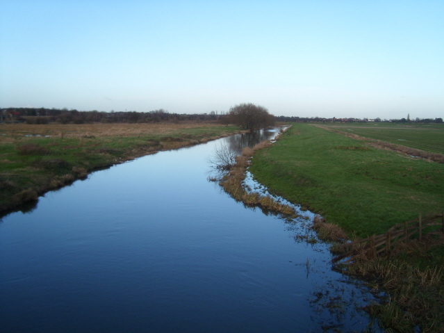 River Idle Looking north from Bawtry bridge